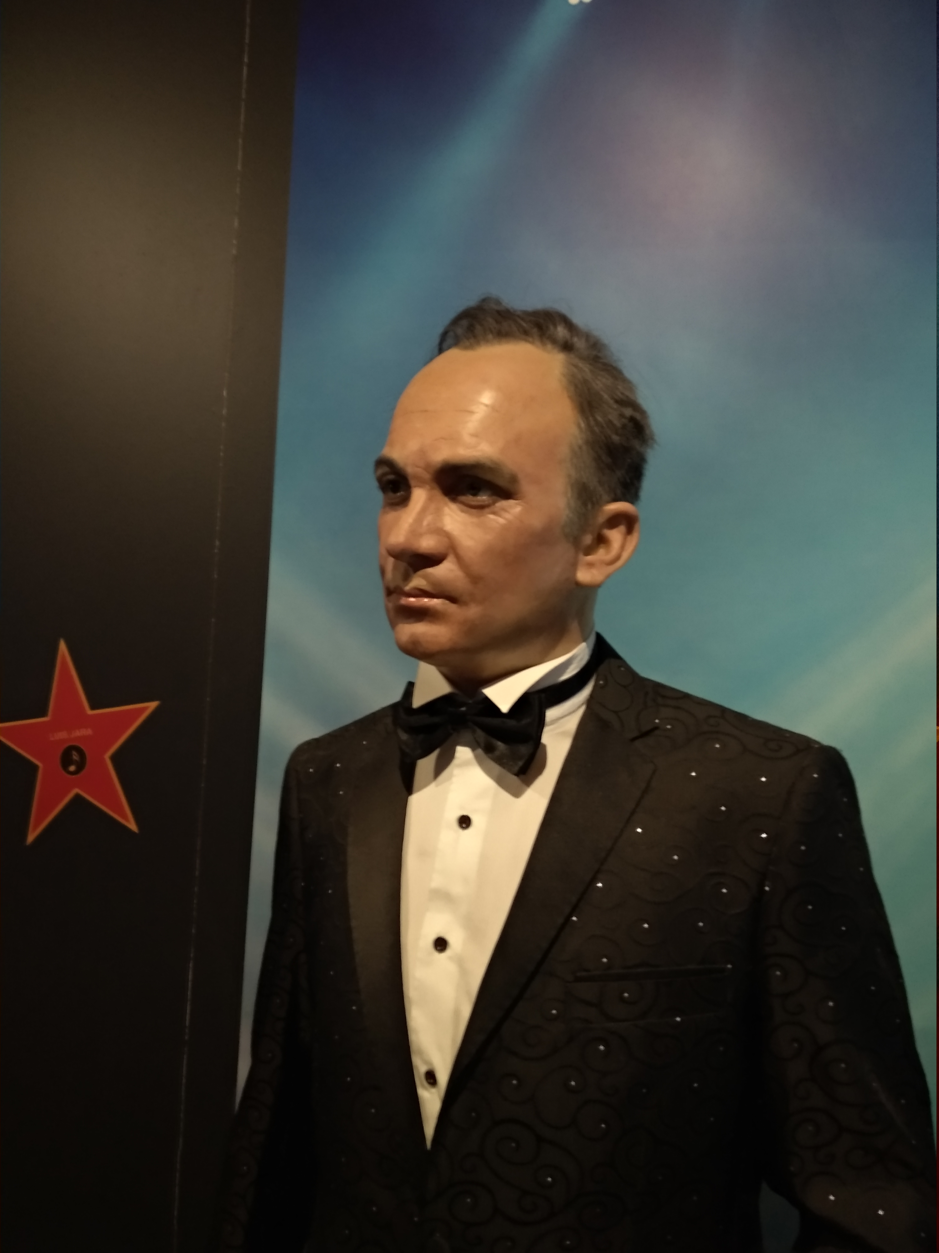 Wax sculpture of chilean singer Luis Jara in Museo de Cera de Las Condes (Wax Museum of Las Condes).